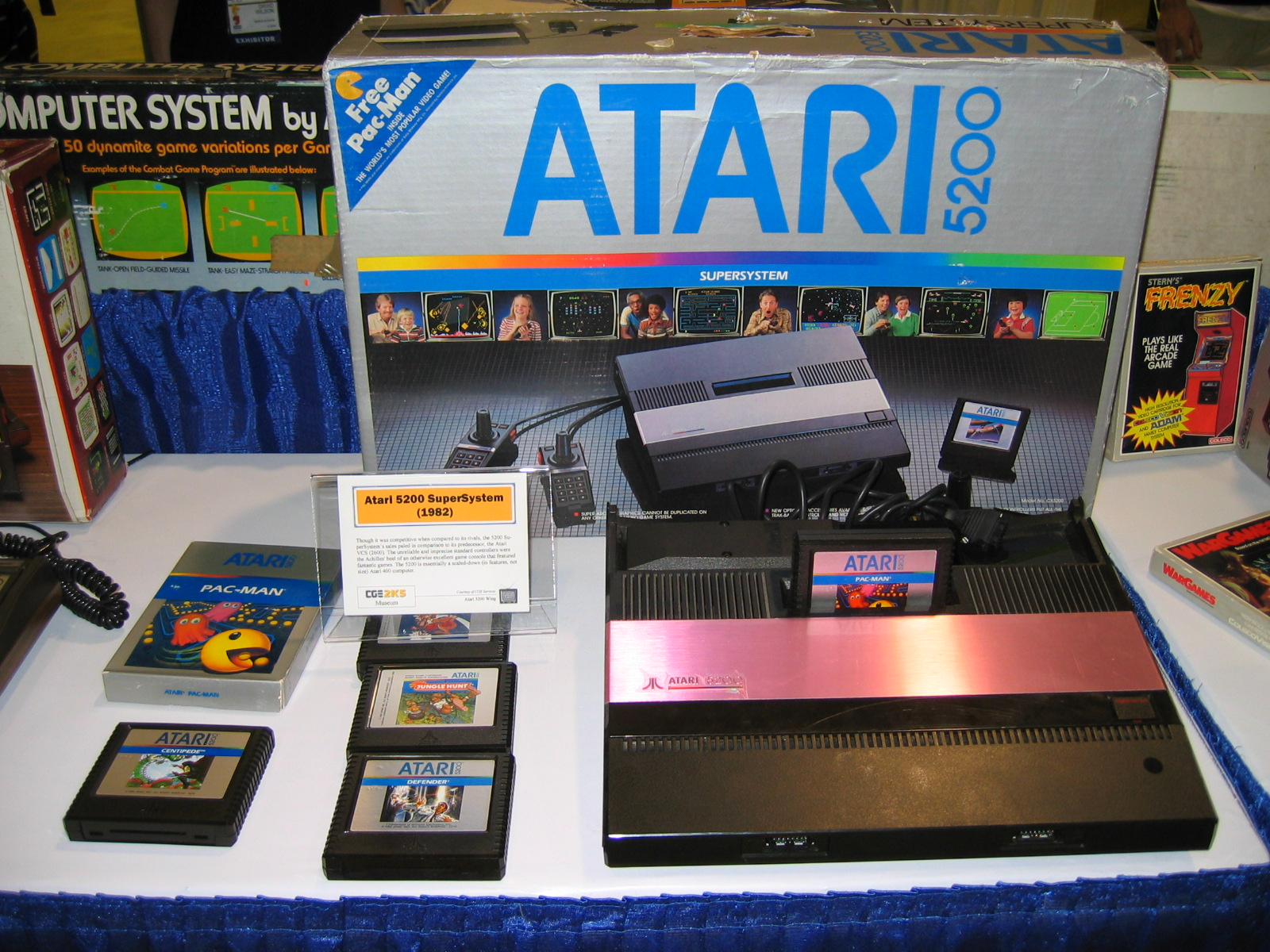 Atari 5200 his box and some cartridge at the E3 2005.